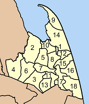 Map of Pak Pahang district, Nakhon Si Thammarat province, Thailand, with the communes (tambon) numbered. Pak Phanang (ปากพนัง) Khlong Noi (คลองน้อย) Pa Rakam (ป่าระกำ) Chamao (ชะเมา) Khlong Krabue (คลองกระบือ) Ko Thuat (เกาะทวด) Ban Mai (บ้านใหม่) Hu Long (หูล่อง) Laem Talumphuk (แหลมตะลุมพุก) Pak Phanang Fang Tawantok (ปากพนังฝั่งตะวันตก) Bang Sala (บางศาลา) Bang Phra (บางพระ) Bang Taphong (บางตะพง) Pak Phanang Fang Tawan-ok (ปากพนังฝั่งตะวันออก) Ban Phoeng (บ้านเพิง) Tha Phaya (ท่าพยา) Pak Phraek (ปากแพรก) Khanap Nak (ขนาบนาก)